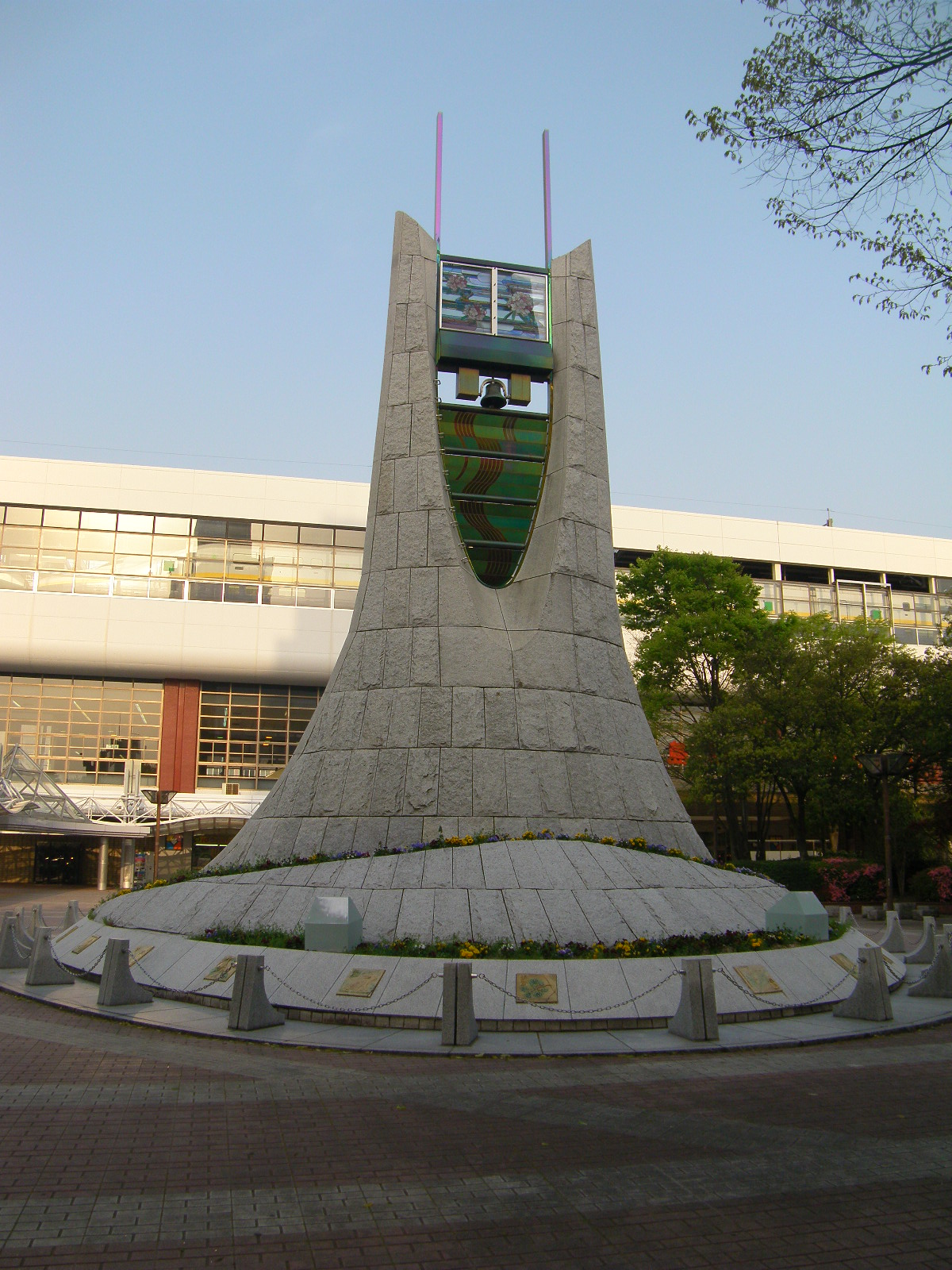 Fukushima Station (Fukushima) West Entrance Monument. Fukushima, Fukushima prefecture, Japan.